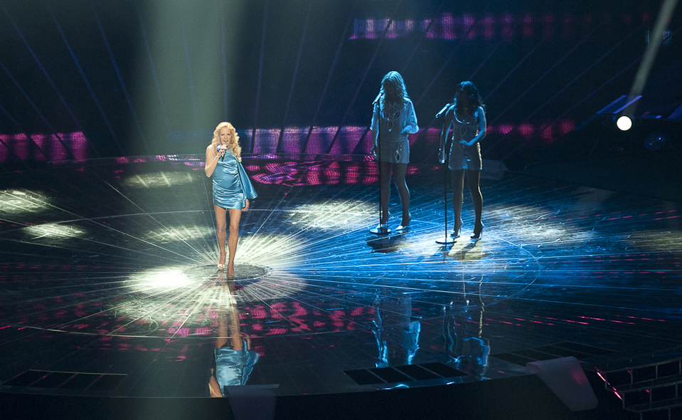 Kati Wolf from Hungary performing "What About My Dreams?" at Eurovision Song Contest 2011 in Düsseldorf